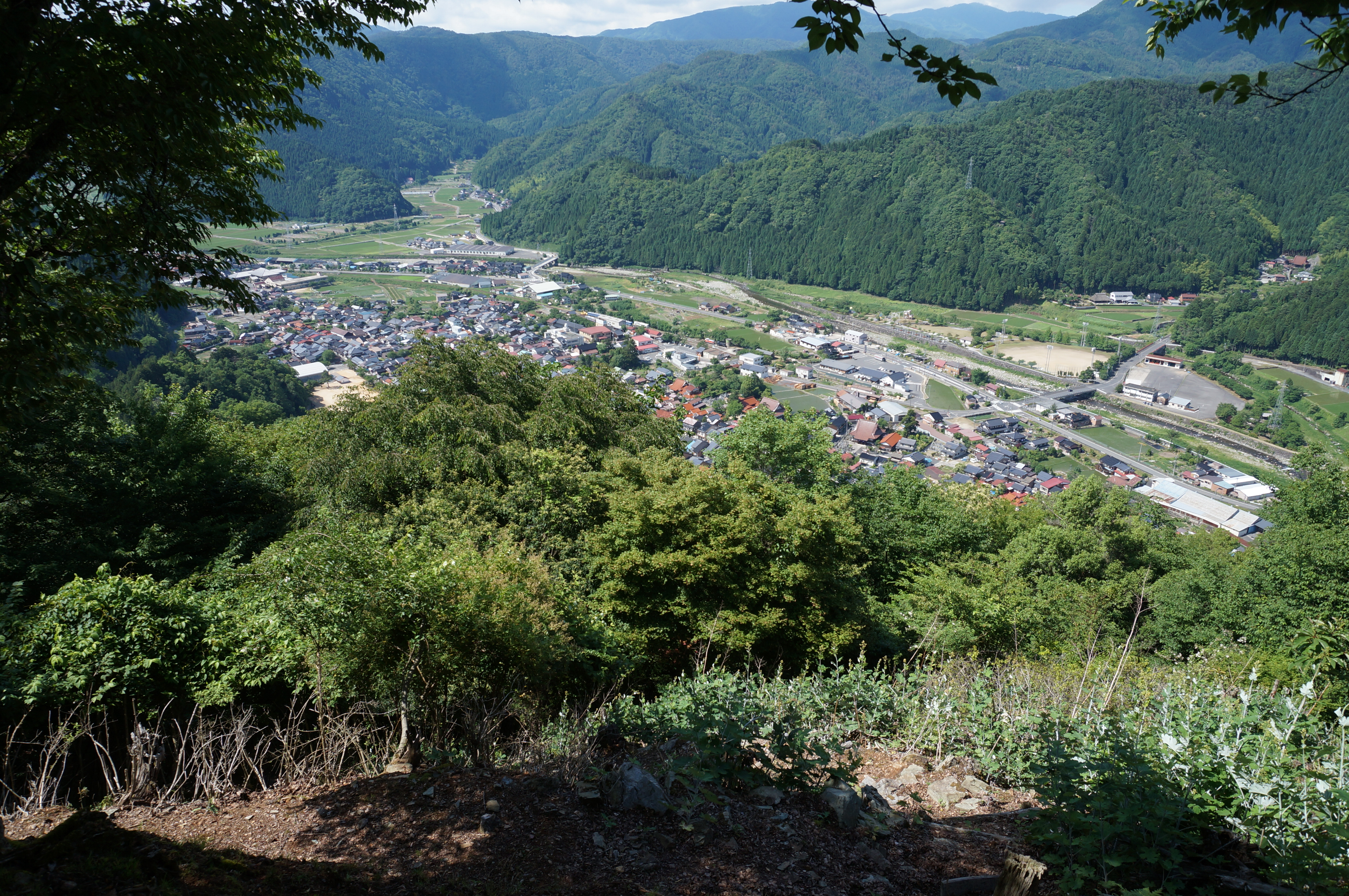 View of Wakasa town from Wakasa Oniga-jō